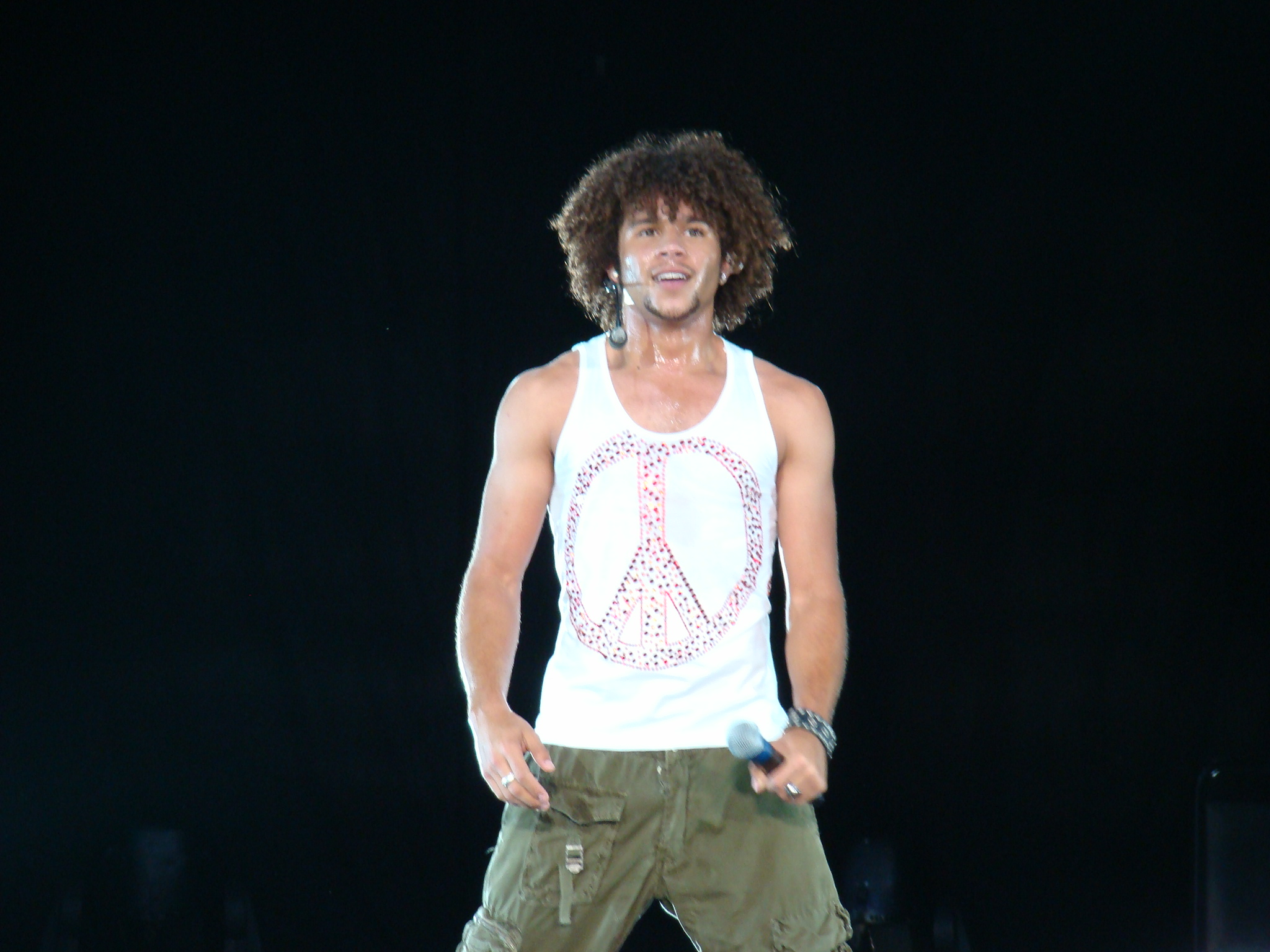 Corbin Bleu in 2007.